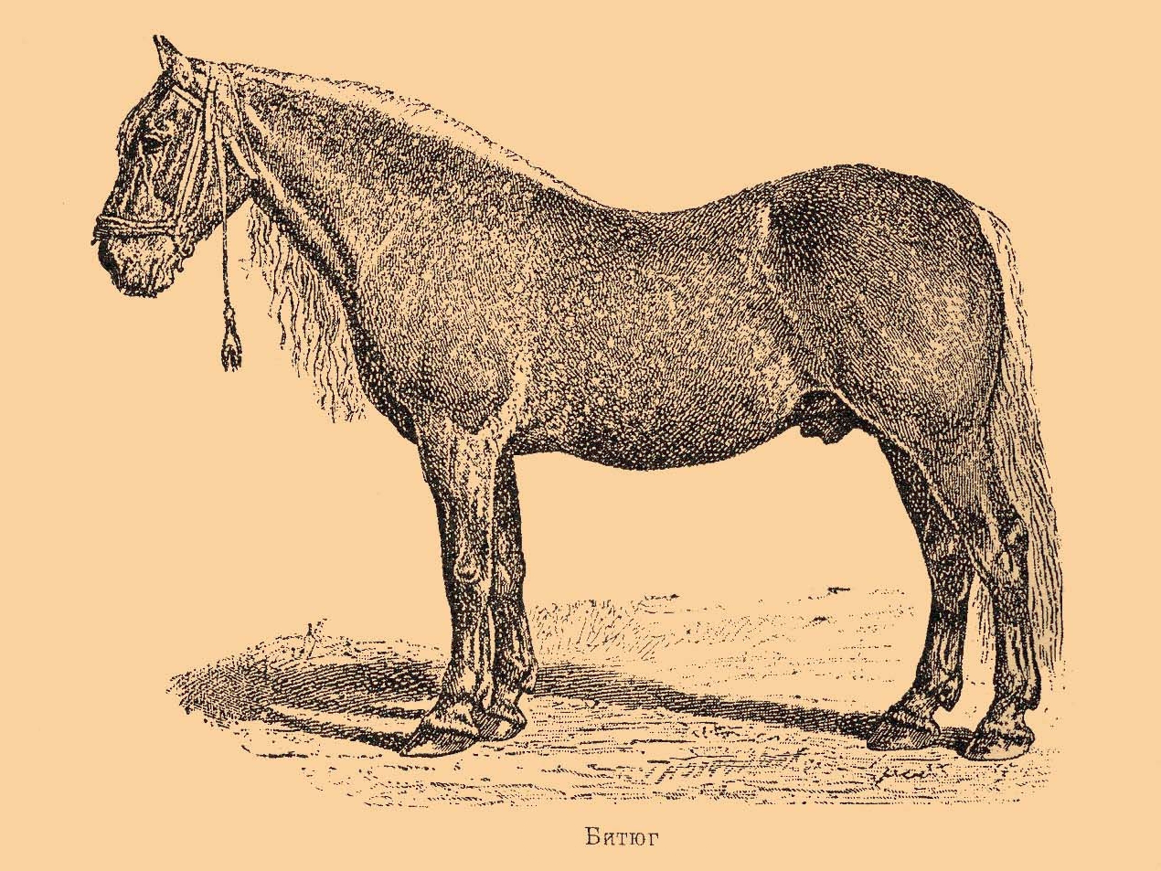 Bitjug horse - Illustration from Brockhaus and Efron Encyclopedic Dictionary (1890—1907)